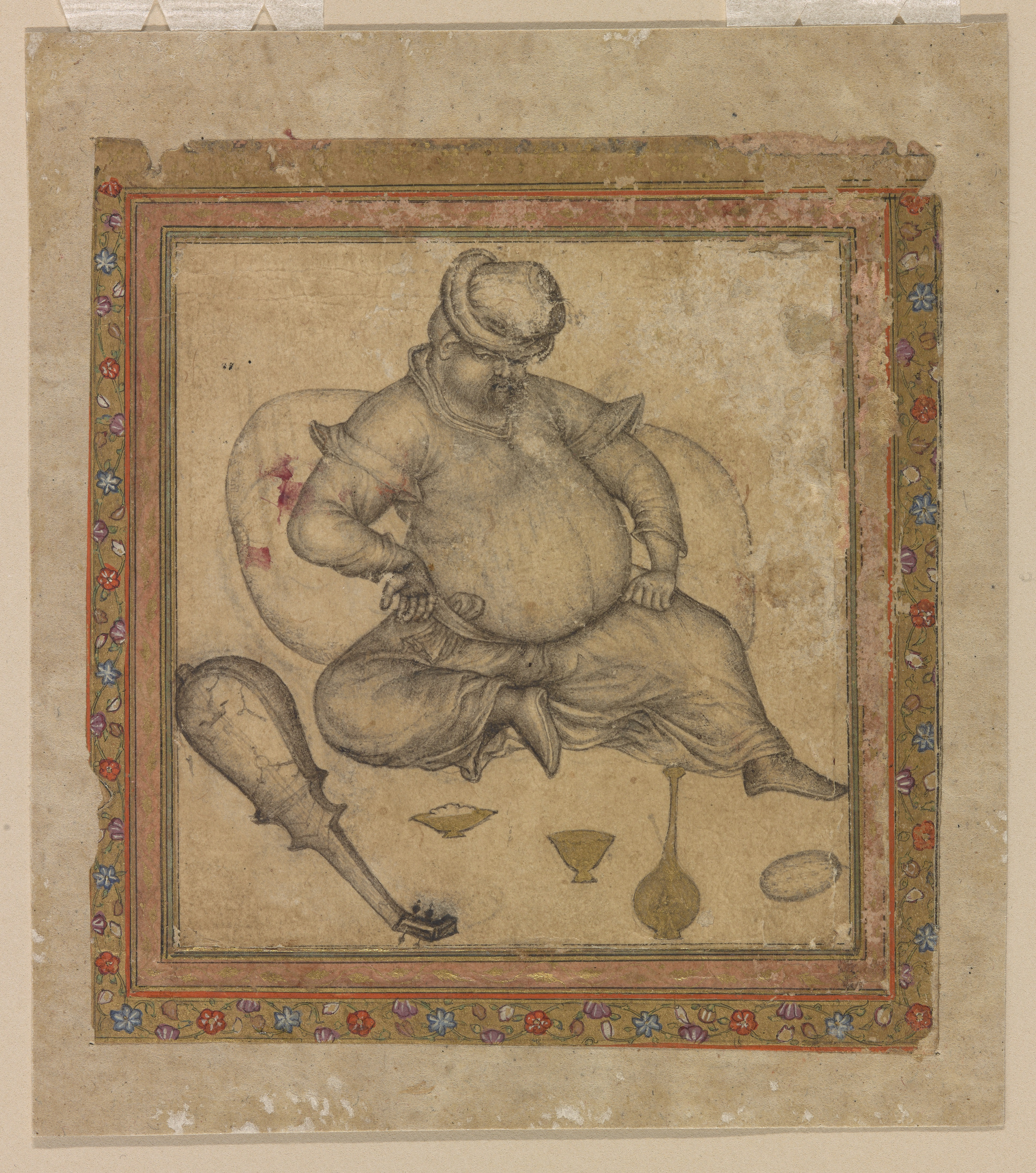 Basawan. Drunk European seated on ground. ca. 1580-1585. Freer and Sackler Gallery, Washington